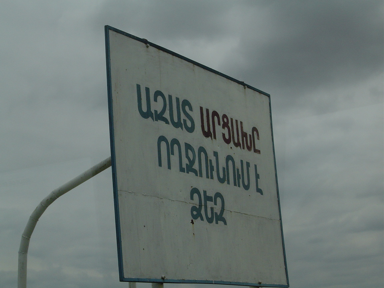 "Free Artsakh Greets You" - on the Goris-Stepanakert road to Nagorno-Karabakh. Photo taken by Marshal Bagramyan.